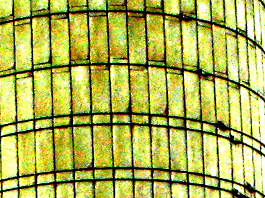 High contrast level-adjusted image highlighting the seams of the concrete staves and the hoop spacing towards the top of the silo. Near the top, a single hoop is sufficient to hold the staves together but progressively towards the bottom more hoops are needed to counter forage pressure on the outside wall. Notice how the lower hoops are aligned perfectly across the stave edges, effectively hiding them from view near the ground.